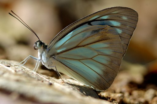 Common Wanderer : Pareronia valeria